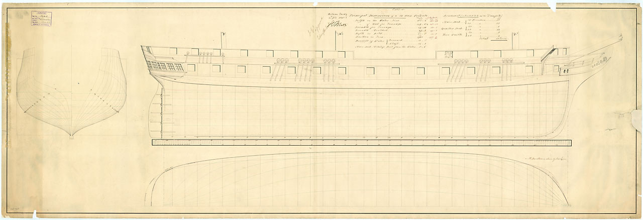 LEANDER 1848 lines